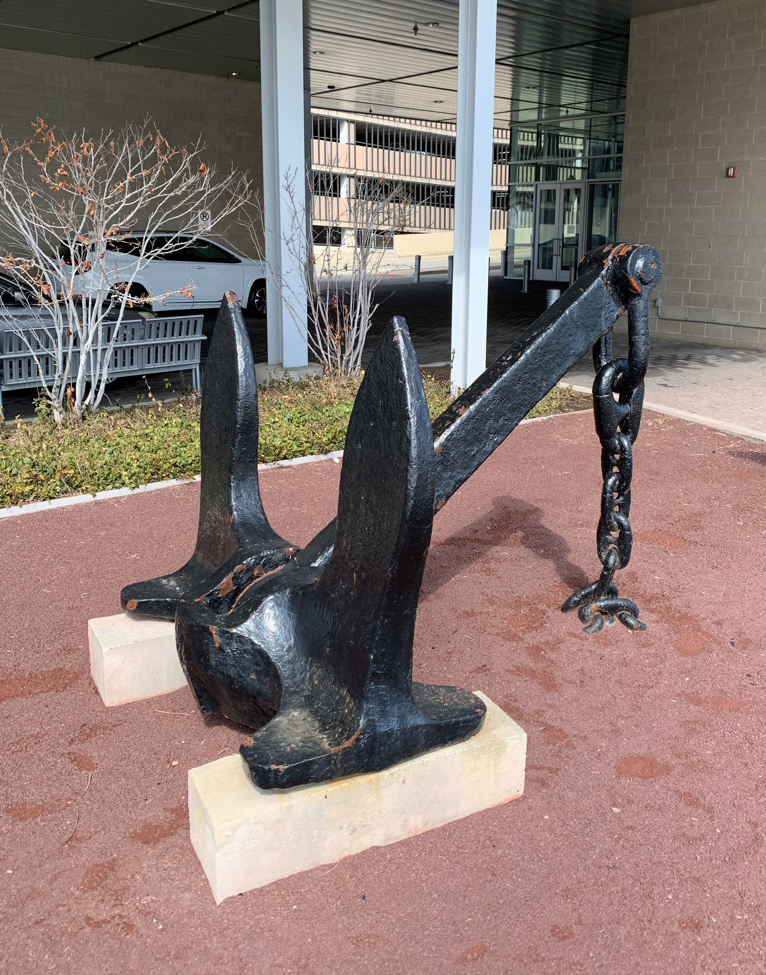 The anchor of the SS Greater Detroit, a Detroit and Cleveland Navigation company steamship that sailed Lake Erie from 1924-1950. The anchor was cut during scrapping in 1956 and recovered in 2016 from the Detroit River. It currently resides outside the Detroit/Wayne County Port Authority building in Detroit.